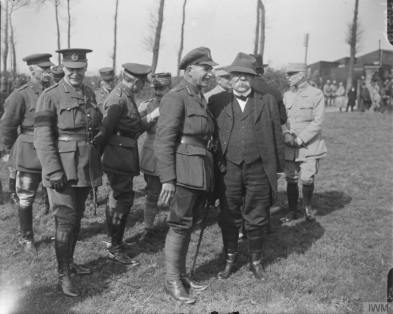 The Official Visits To the Western Front, 1914-1918 General Reginald Pinney, the Commander of the 33rd Division, and Georges Clemenceau, the French Prime Minister, inspecting units of the 33rd Division. Cassel, 21 April 1918.